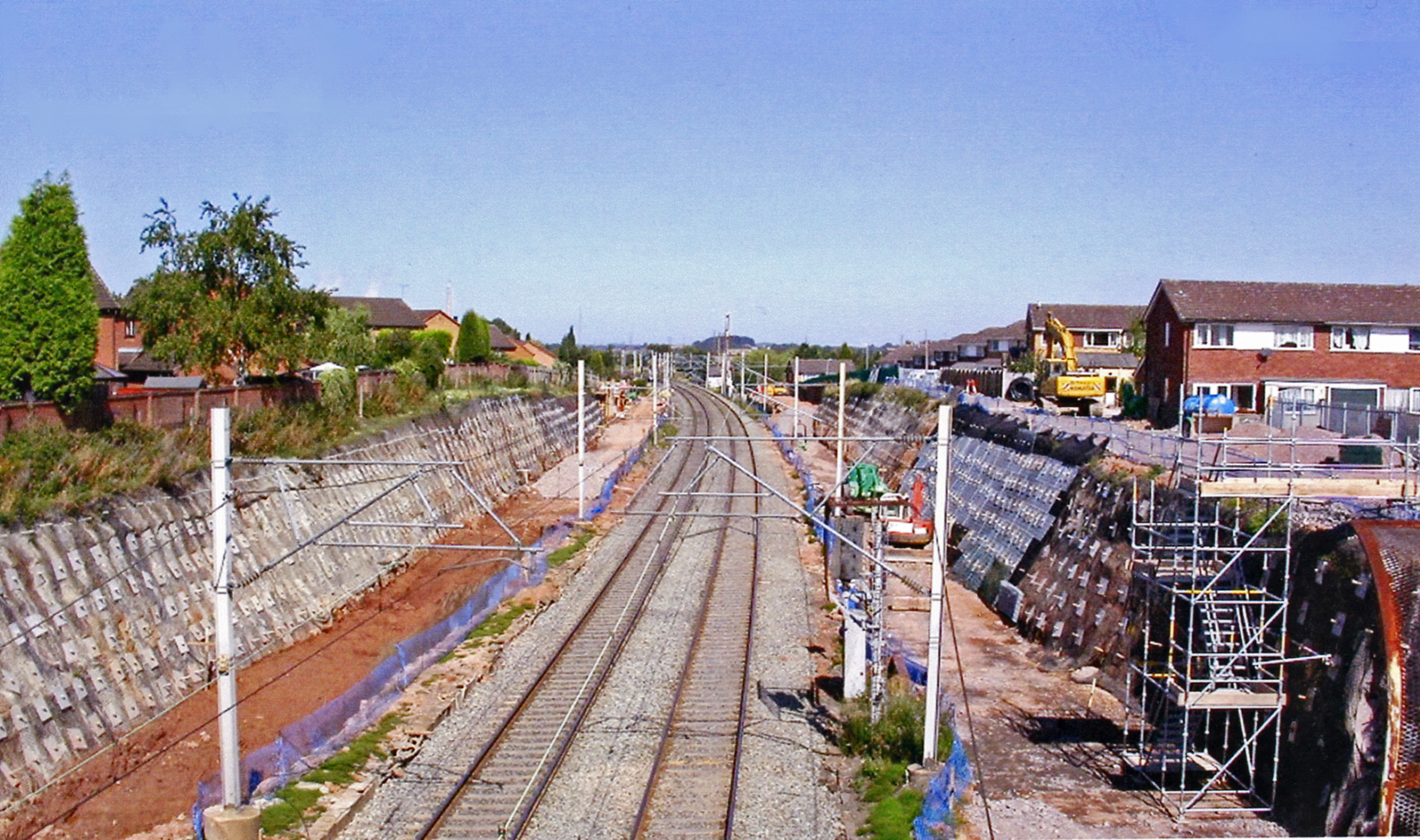 West Coast Main Line at site of Armitage station, widening work 2006. View NW from the A513 bridge at Handsacre, towards Stafford, Crewe etc.: ex-LNWR WCML, at the site of Armitage station which was closed 13/6/60 (goods 6/1/69) in order to ease capacity on the relatively short stretches of only double-track of the WCML south of Crewe. Here in 2006 quadrupling between Tamworth and Rugeley is in progress.